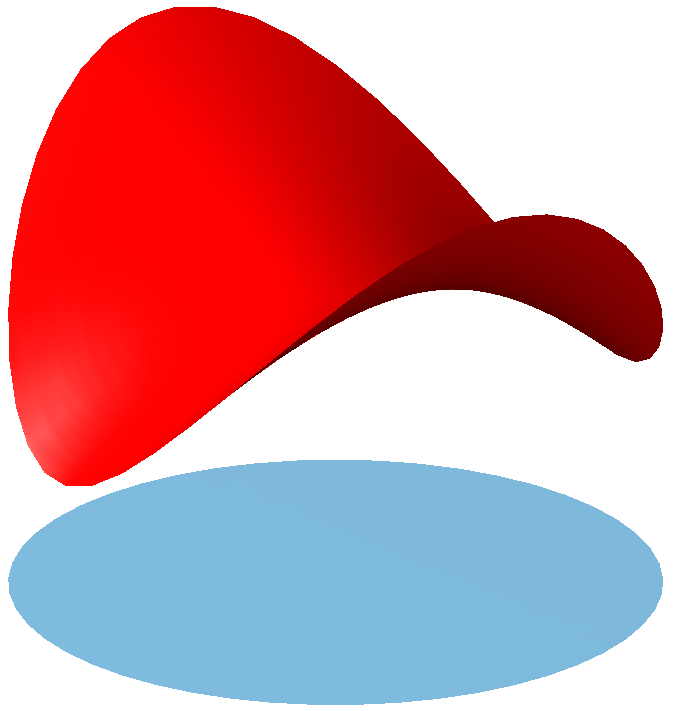 Illustration of Maximum modulus principle